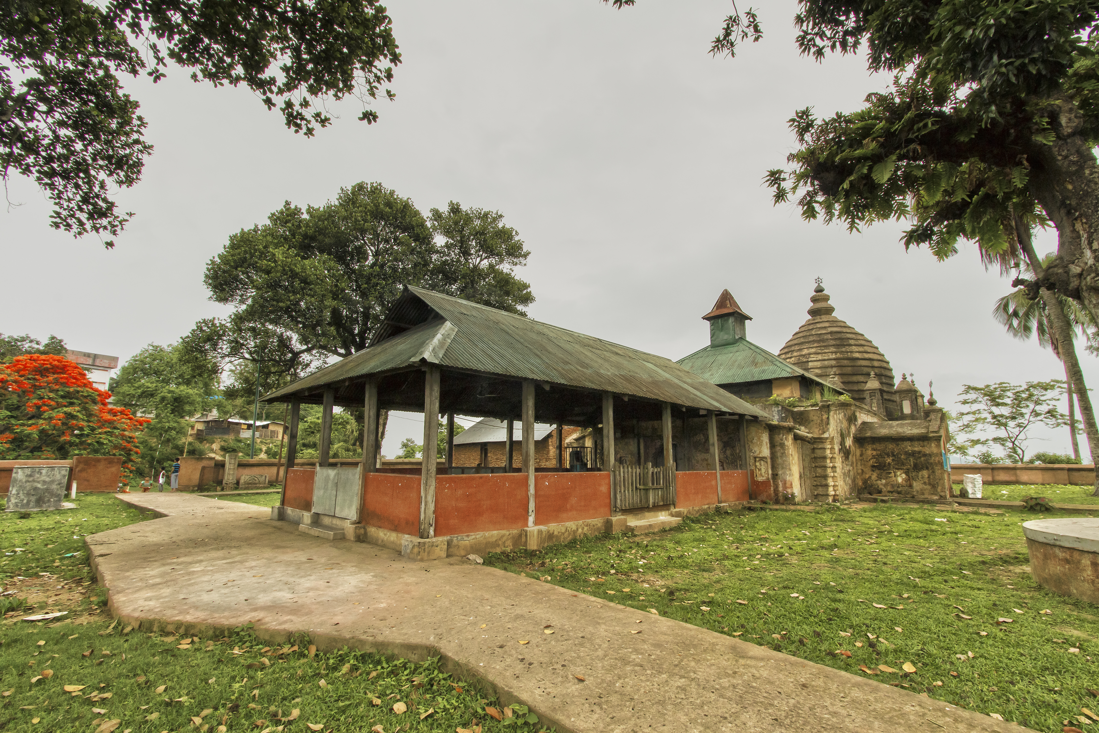 Aswaklanta Temple located at North Guwahati